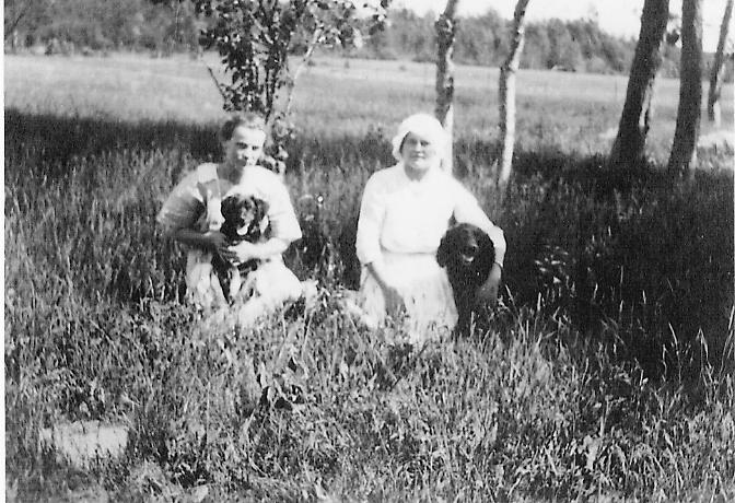 A photo of Hilma Sandstrom Castren and her sister with unknown AWS. Photo is circa 1913, Runeburg Township, Minnesota. Hilma is Norm's maternal grandmother.